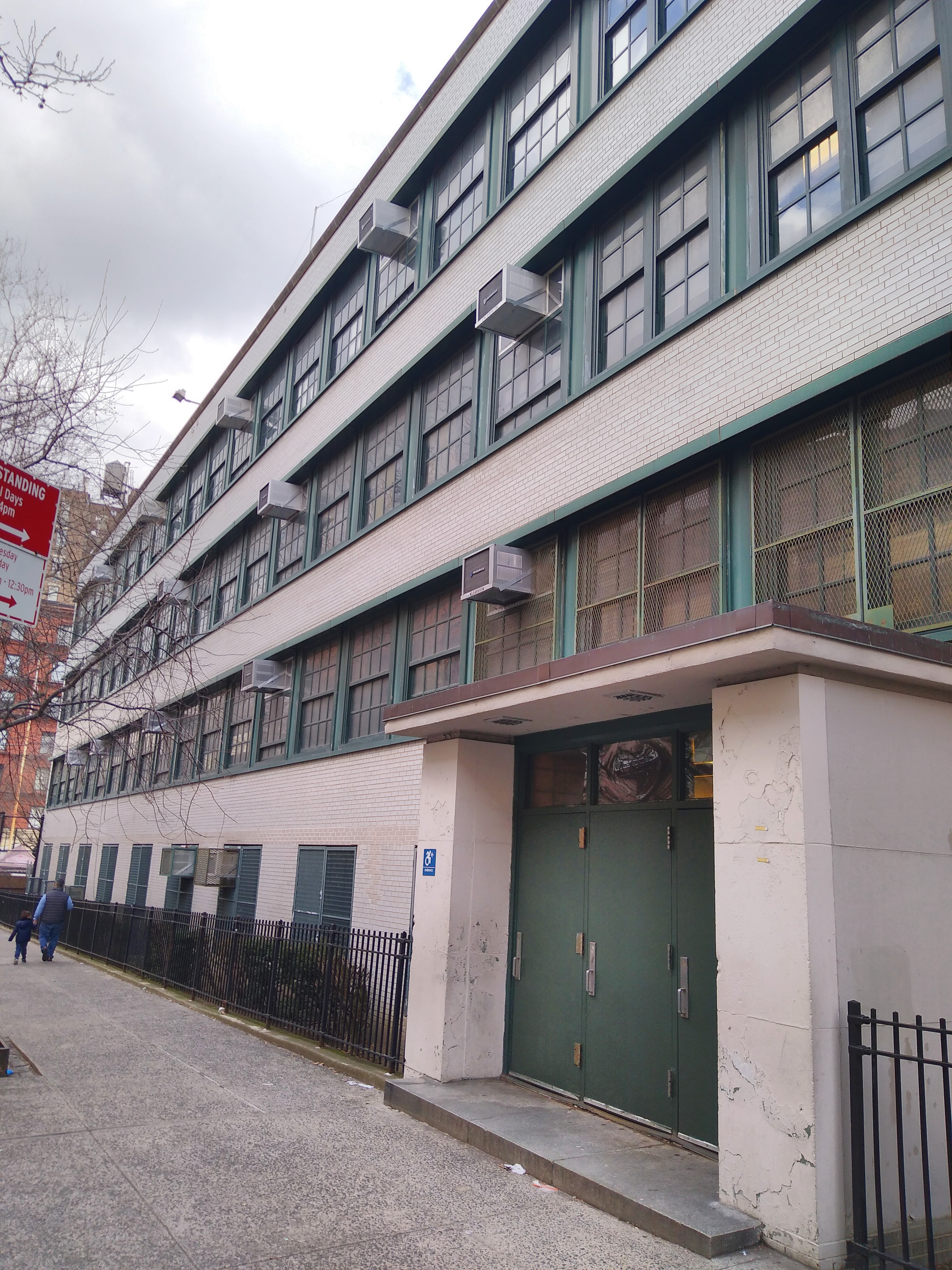 looking south from sidewalk